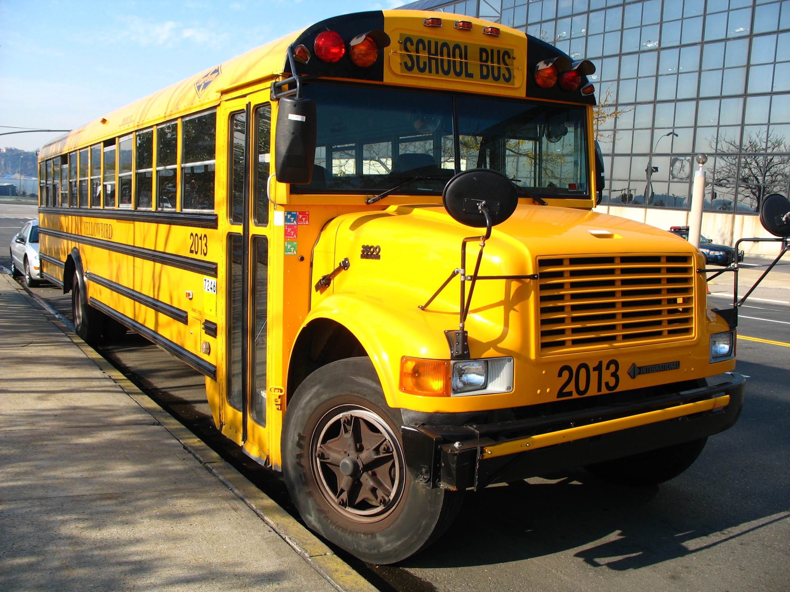 A school bus photographed in New York, New York. Bus is a 2000-2001 Carpenter Classic 2000 body with an International 3800 chassis.